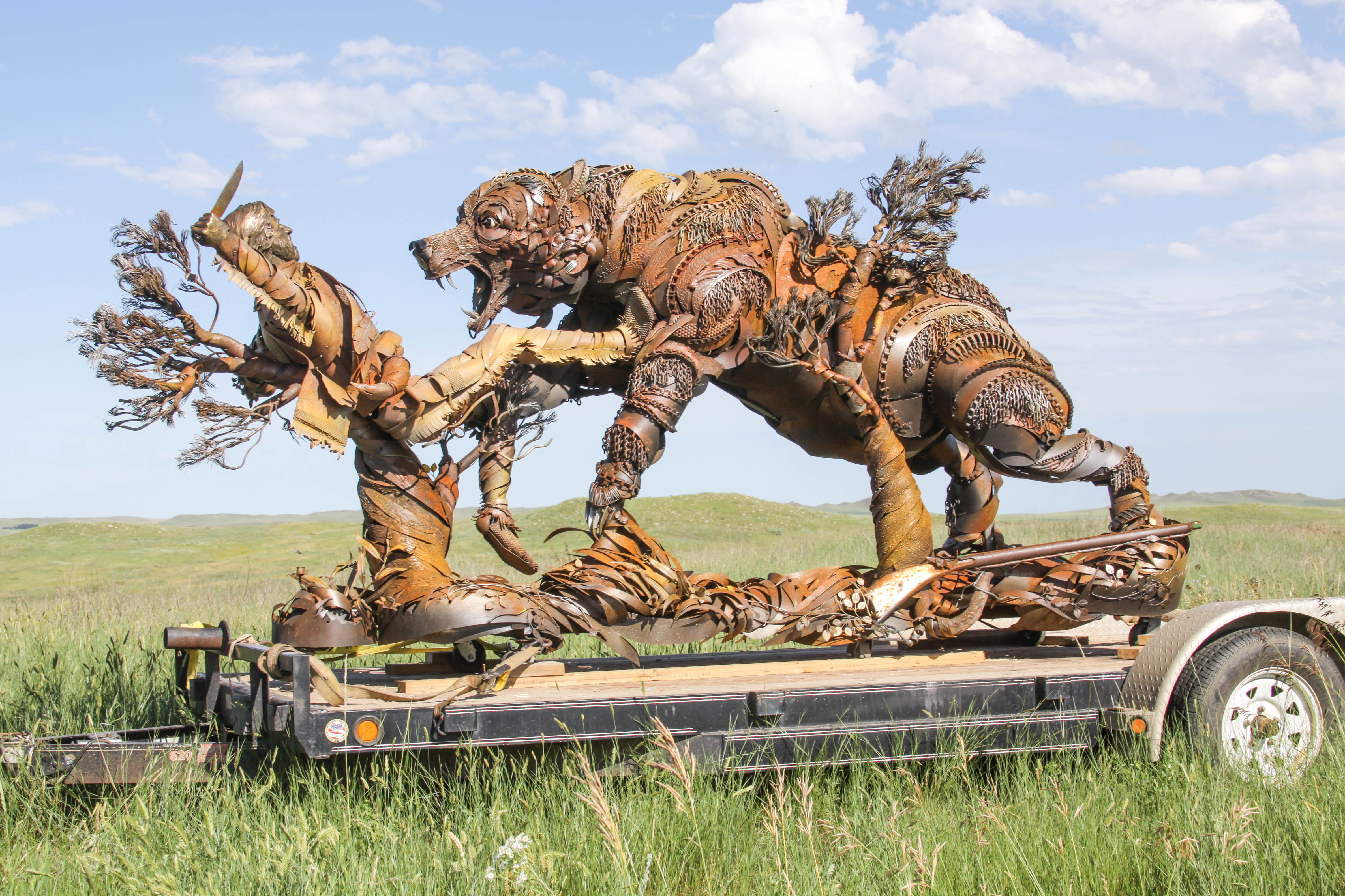 This life-size sculpture of Hugh Glass being mauled by a grizzly bear resides at the Grand River Museum in Lemmon, South Dakota, 15 miles from where the actual mauling took place.